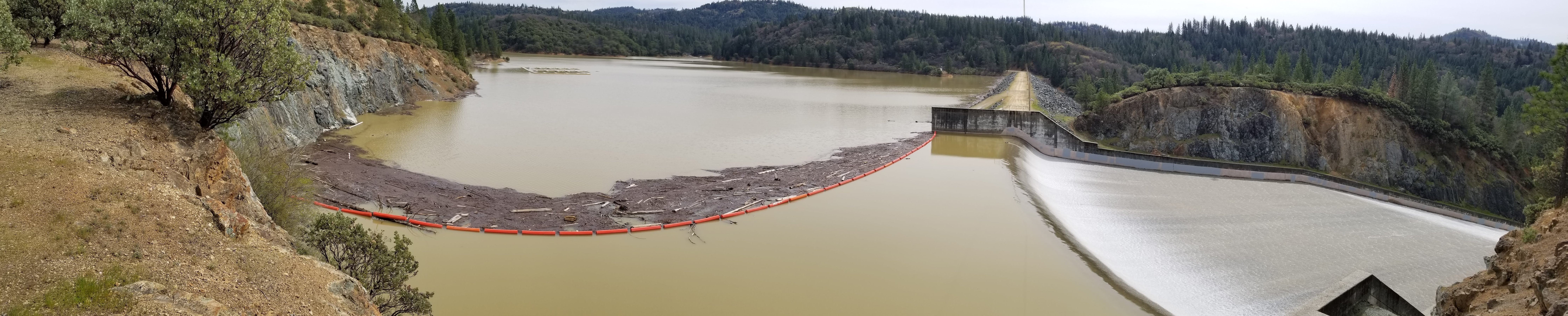 Rollins Dam Spill way